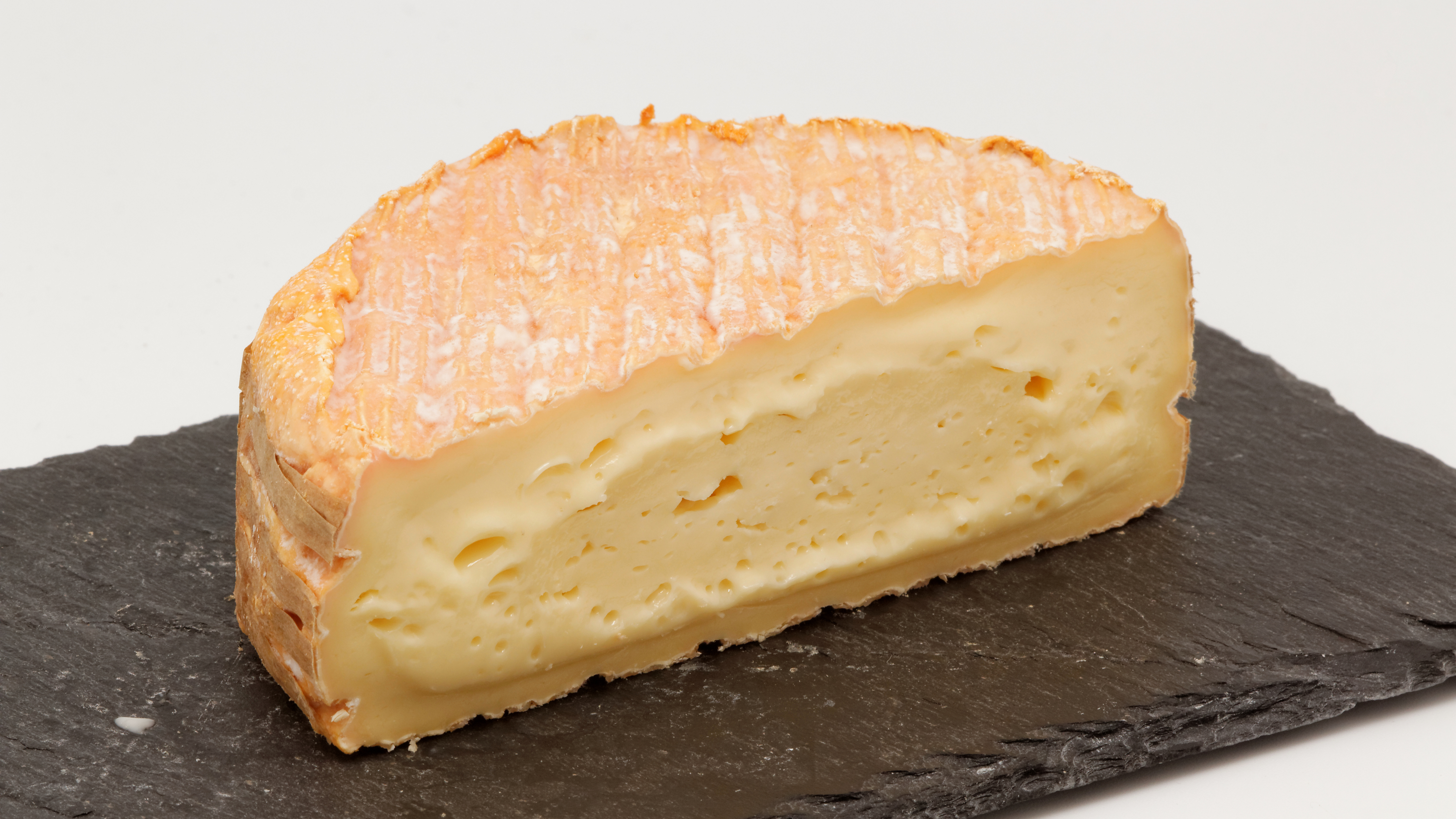 Livarot (cow's milk cheese)